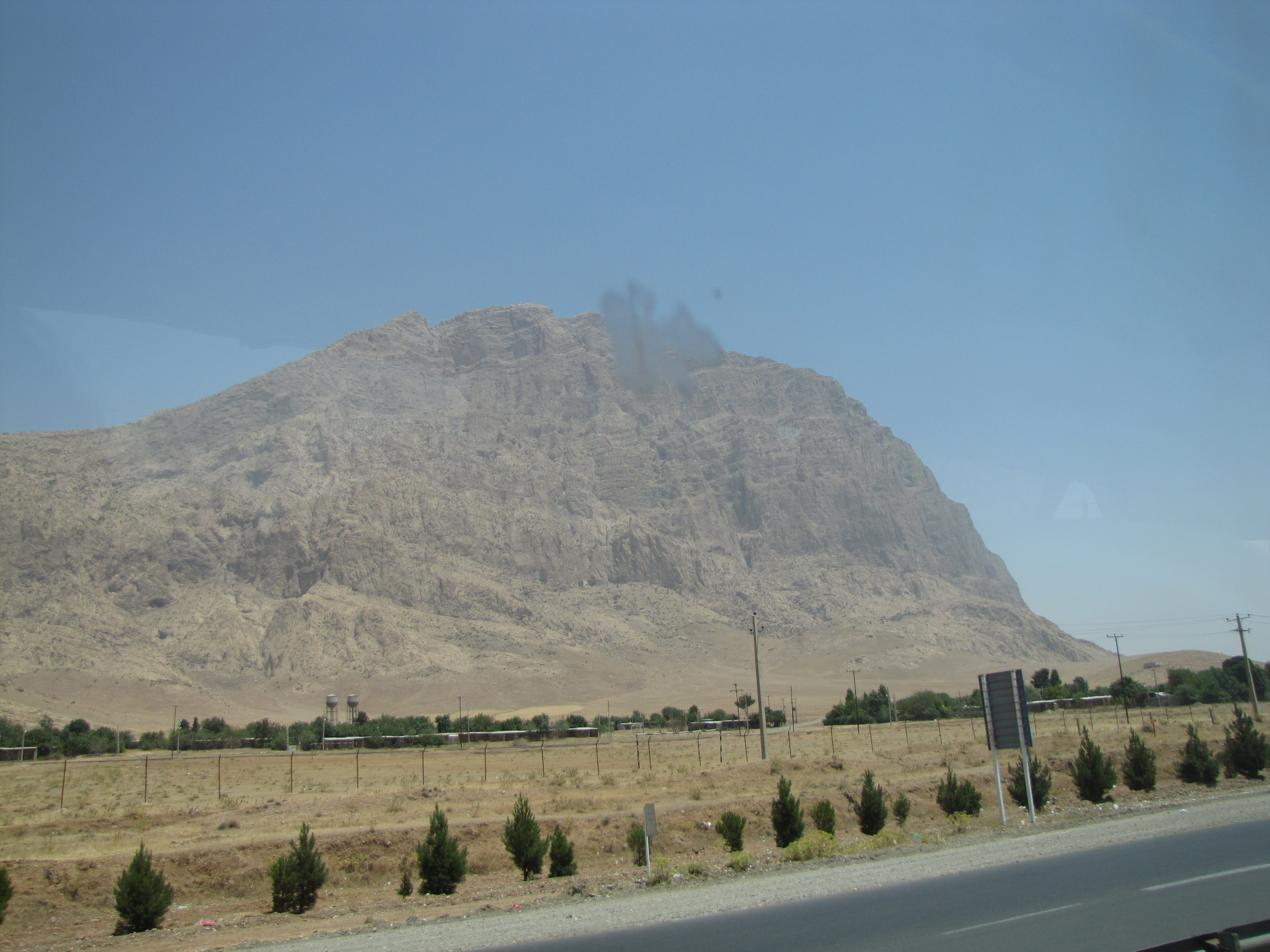 Behistun Mount